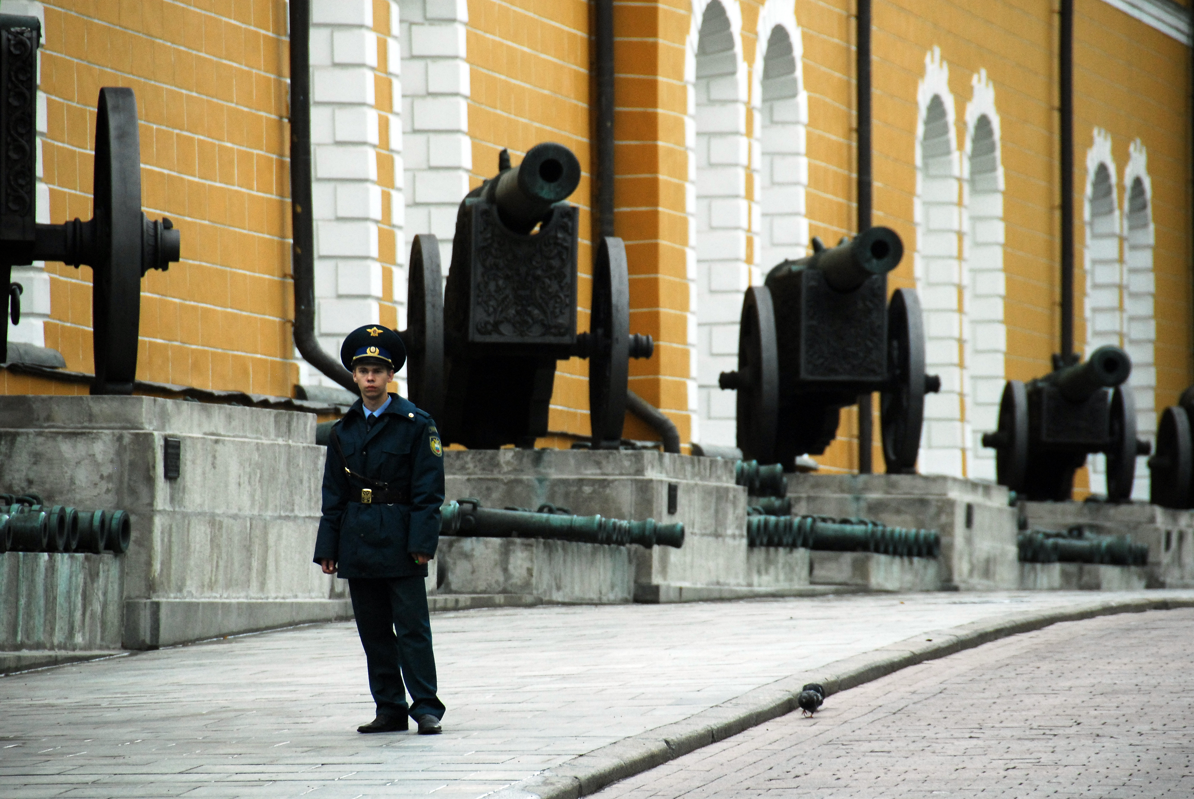 Guarding the Kremlin